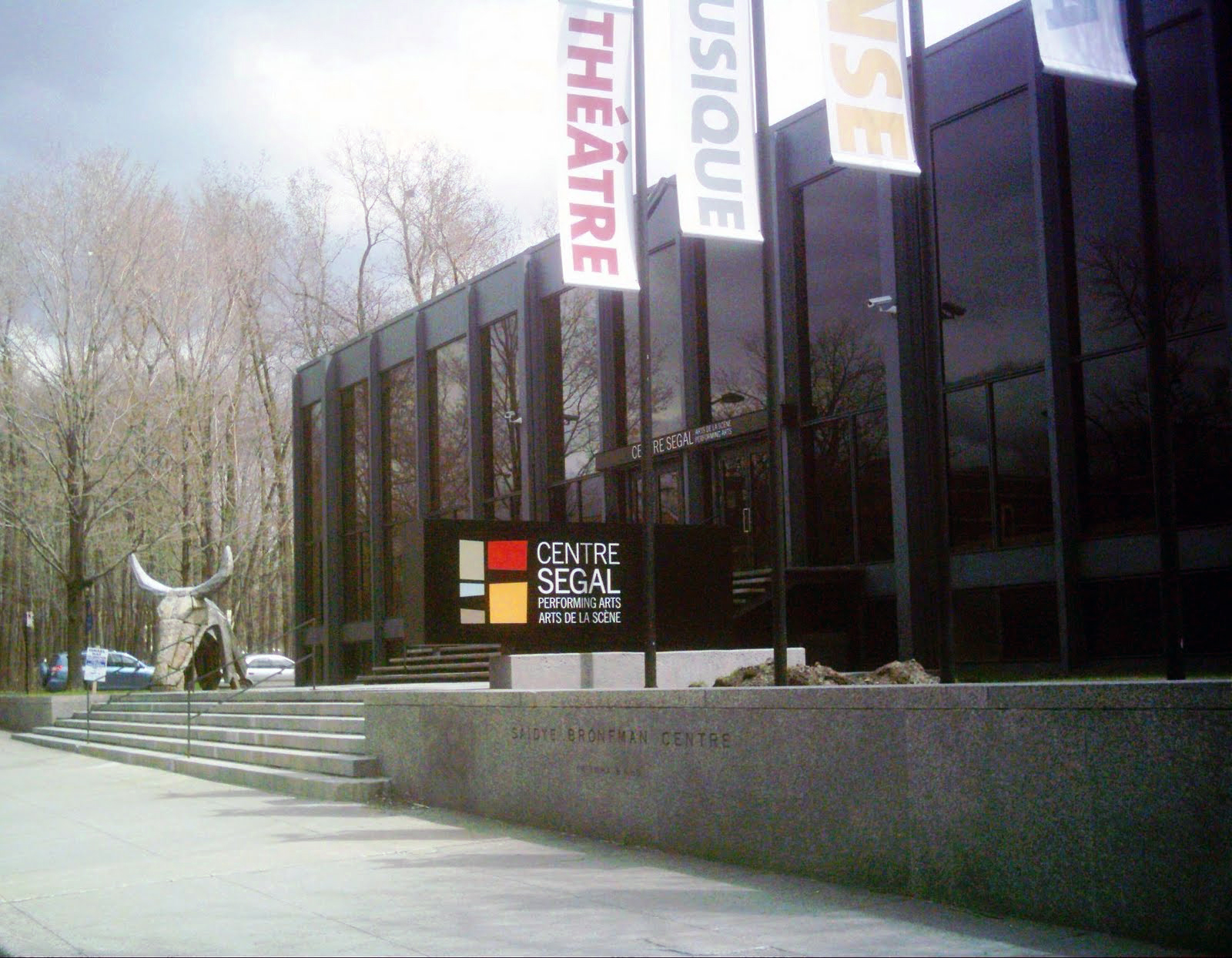 Segal Center for Performing Arts, Montreal, Quebec, Canada